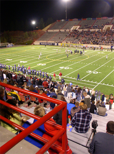 Picture of Joe Albi Stadium - October 27, 2006